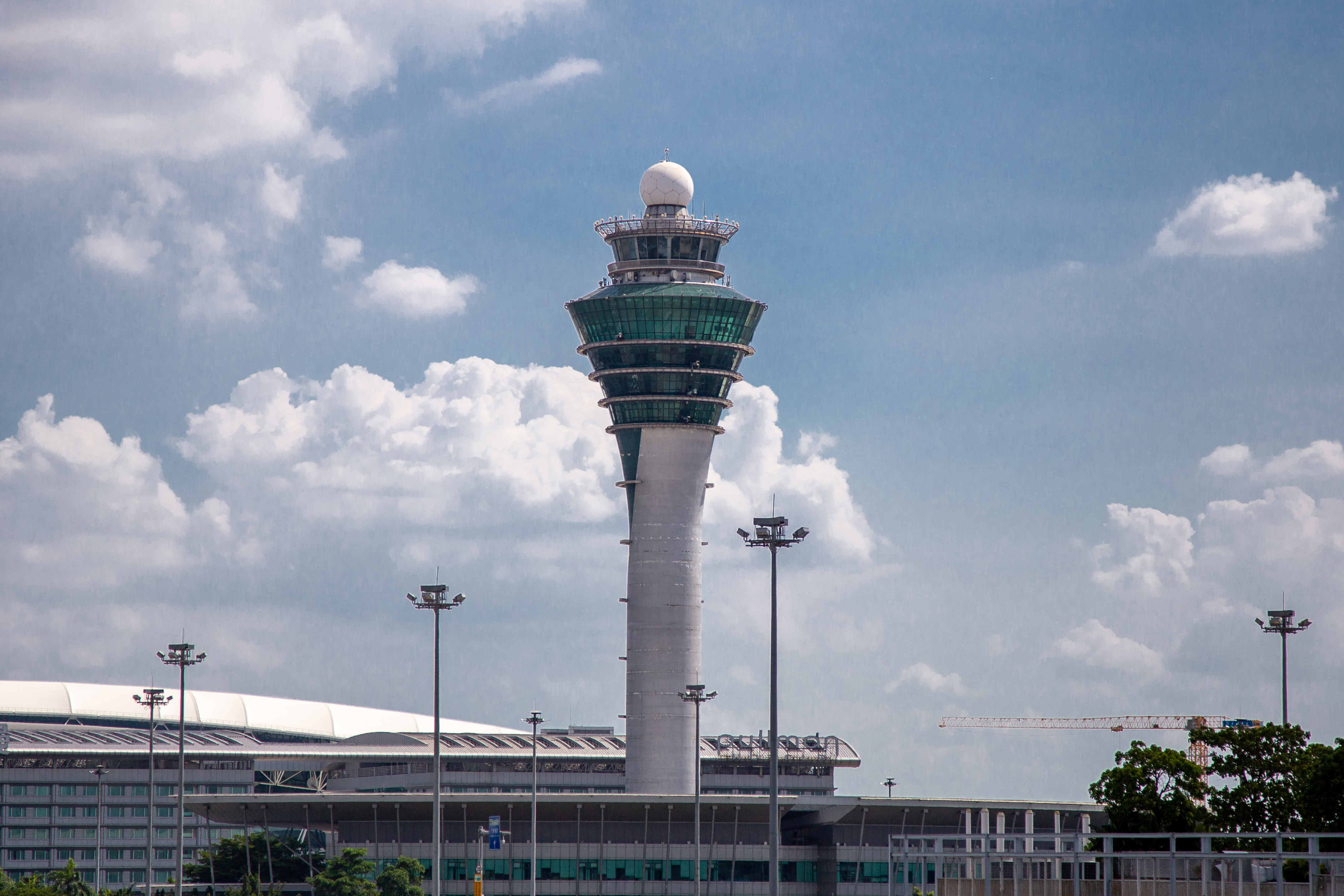 The Control Tower of Guangzhou Baiyun International Airport